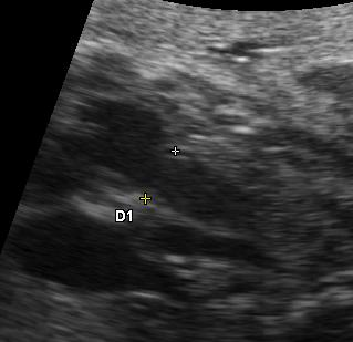 Aortic stenosis: Pulmonary arteria 7 mm ((Foetus 26 weeks)